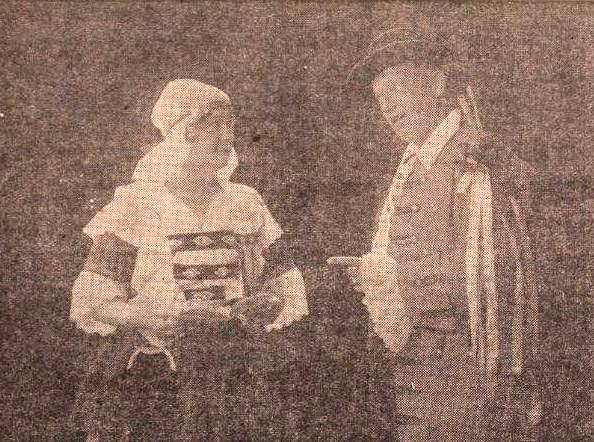 Roelvink en Top Naeff